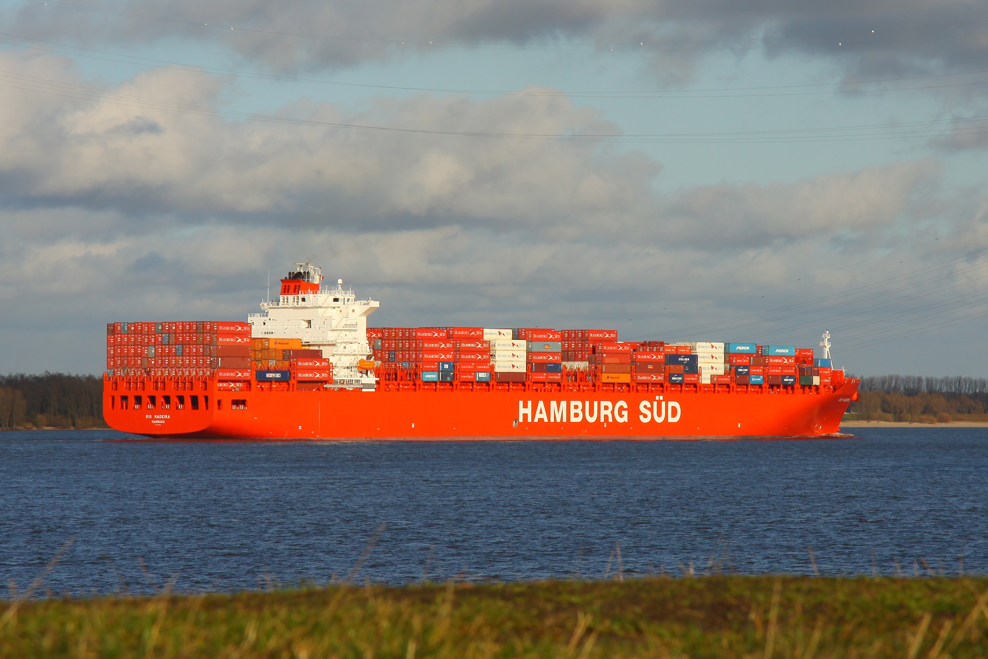 Hamburg Süd RIO MADEIRA on the Elbe heading towards Hamburg. IMO Number: 9348106 MMSI Number: 218326000 Callsign: DGUG2 Length: 286 m Beam: 40 m